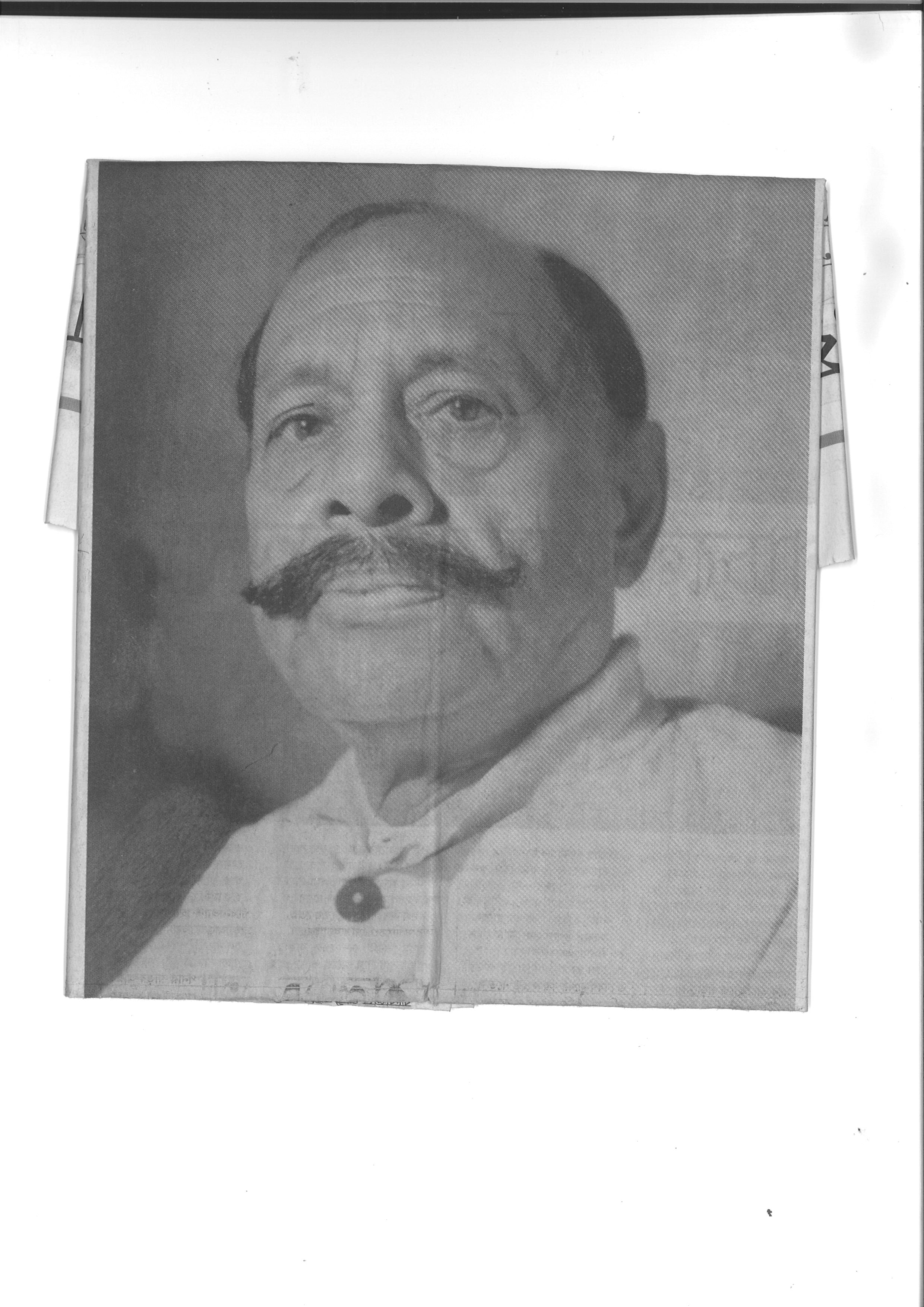 This is the photograph of Faiyaz Khan (1886-1950), the great vocalist of Hindustani classical music. He was an an exponent of the Agra Gharana of classical music remained active between the years 1924 - 1950.